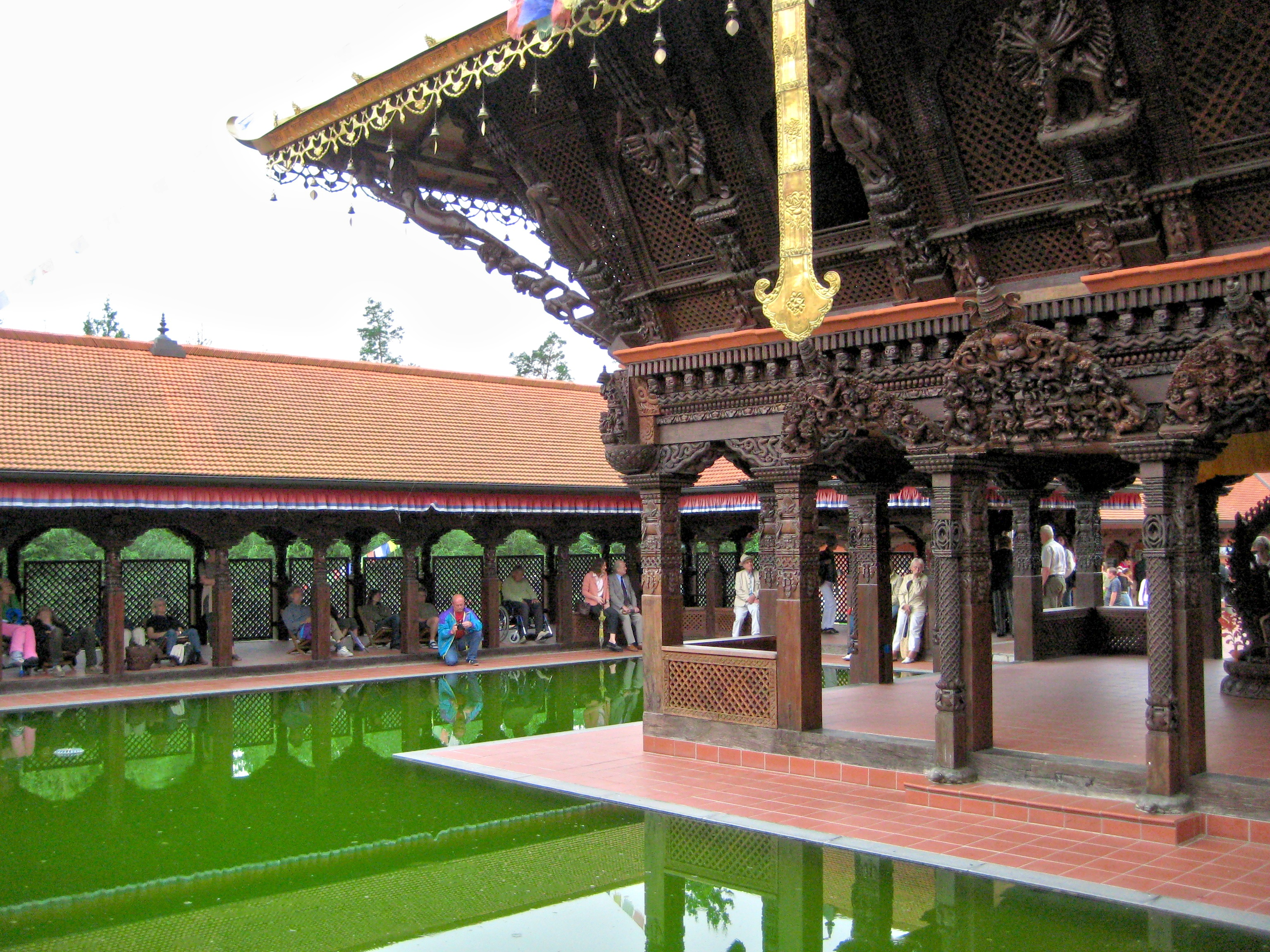 The Nepal Himalaya Pavillon from the Expo 2000, rebuilt with a small botanical garden at Wiesent near Regensburg